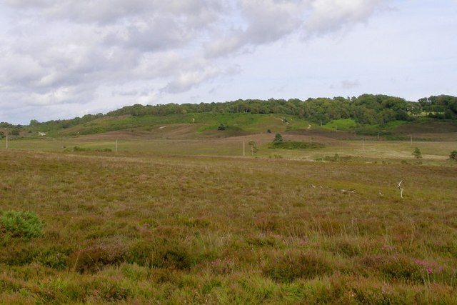 View towards Castle Hill from the west, New Forest